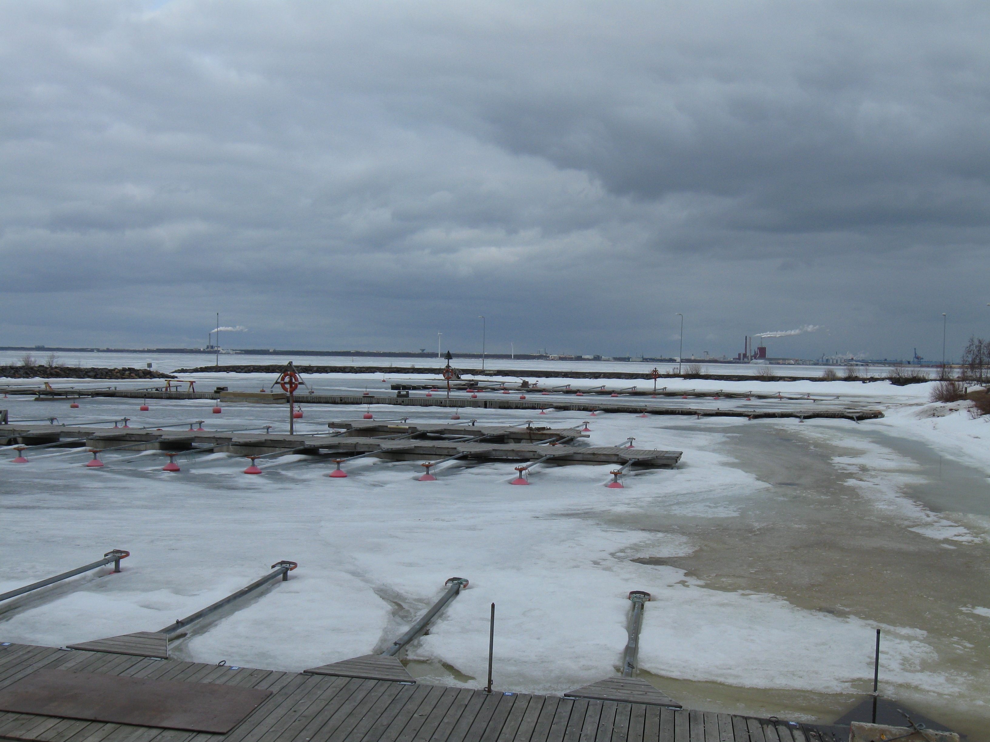 The small boat harbour of Varjakka in Oulunsalo, Finland.